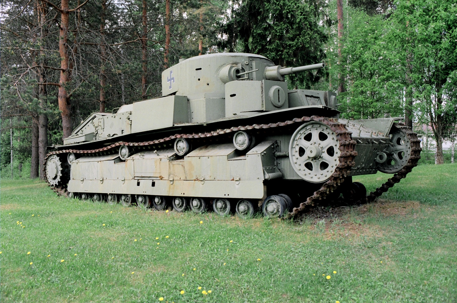 A T-28 tank in the Karkialampi barracks area in Mikkeli, Finland.